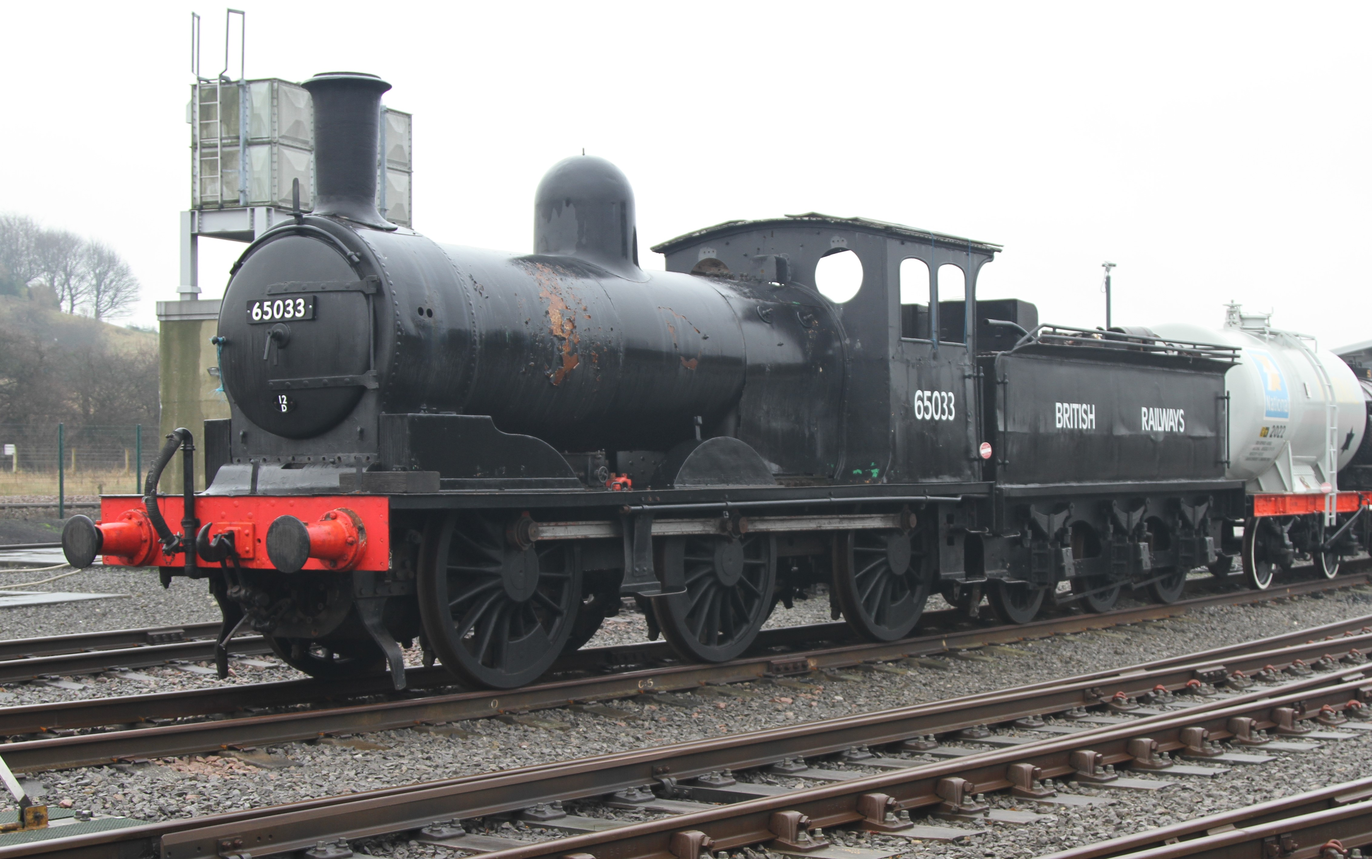 J21 65033 N.R.M. Shildon 08-01-2016